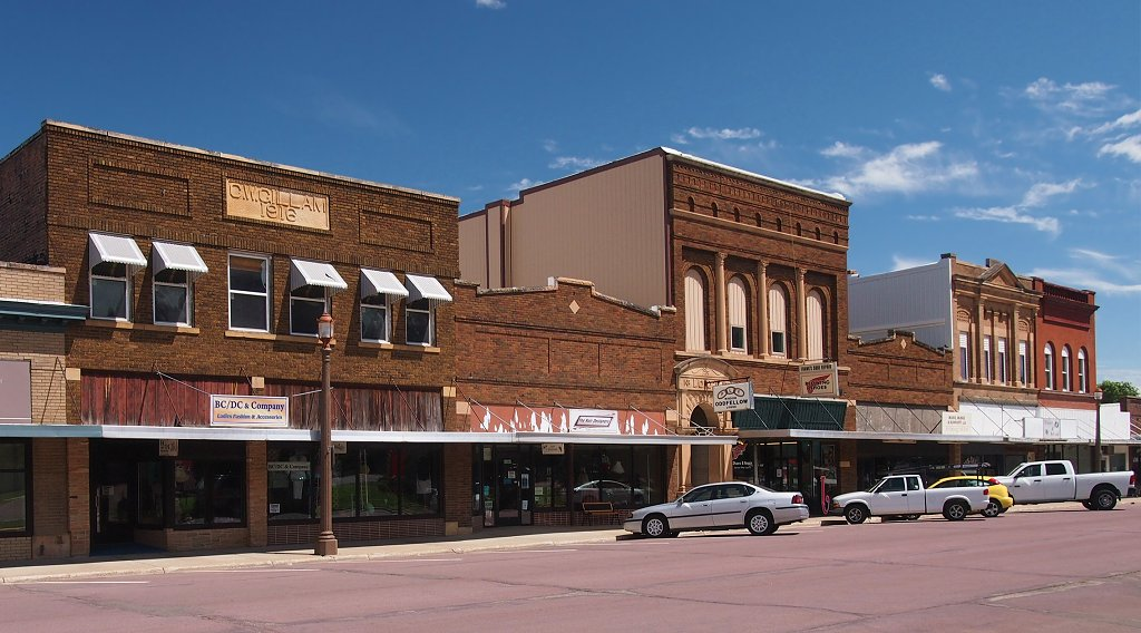 Southeast view on 3rd Avenue between 9th and 10th Streets, Windom, Minnesota, USA.